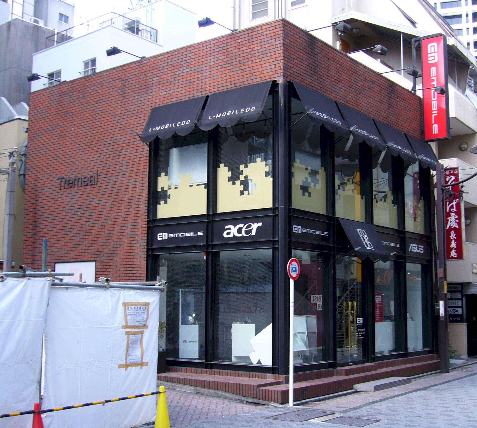 EMOBILE store (cellular phone store in Tokyo, Japan)